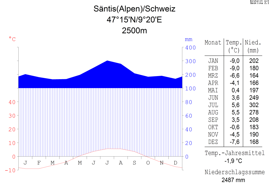 climate chart in the format by Walther and Lieth, metric, °Celsisus and millimeters, made with Geoklima 2.1 DateOctober 2006SourceSoftware: Geoklima 2.1 Website GeoklimaAuthorHedwig in WashingtonPermission (Reusing this file) Own work, attribution required (Multi-license with GFDL and Creative Commons CC-BY 2.5)